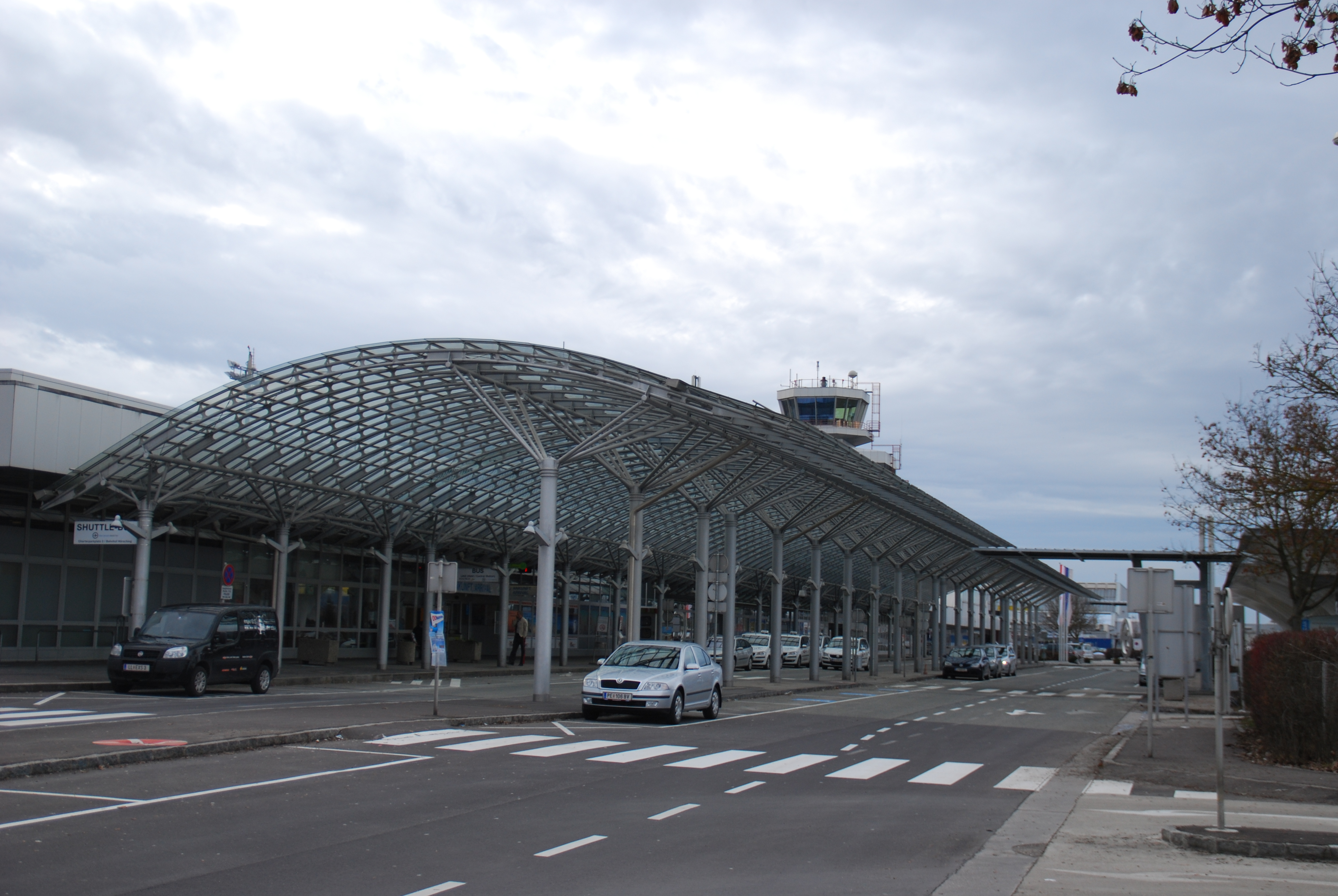 Airport Linz-Hörsching